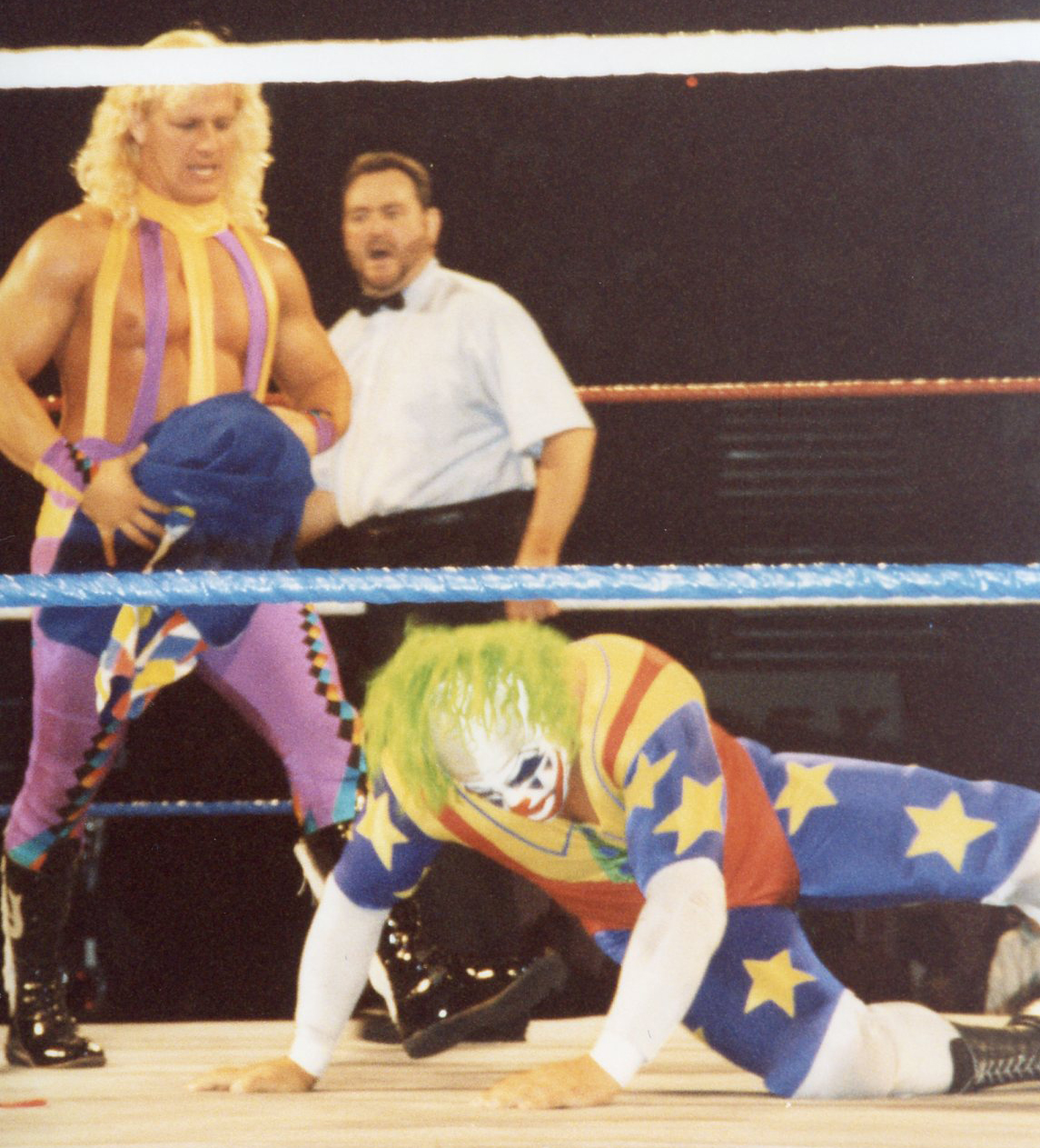 Jarrett attacking Doink the Clown before the bell. Taken September 14, 1994 at London, England's Wembley Arena.